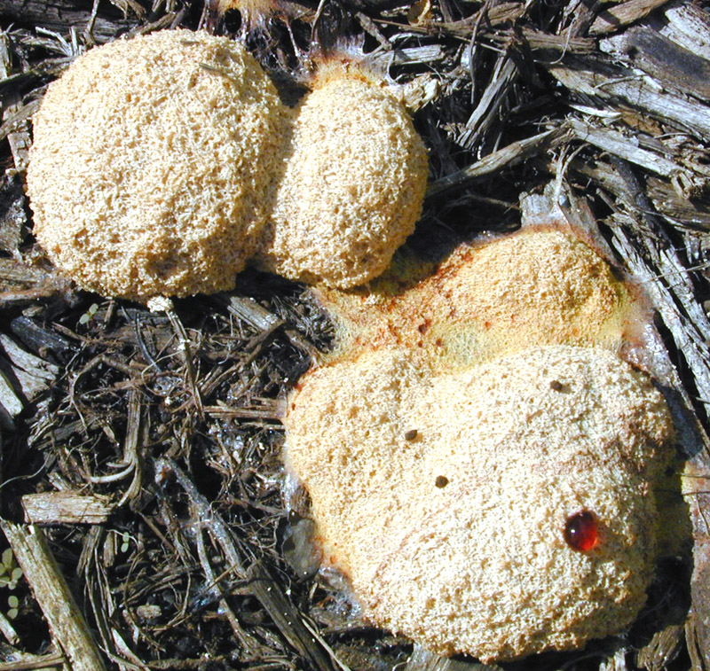 Slime mold (?Fuligo sp.) photographed on O'ahu, Hawai'i by Eric Guinther and released under the GNU Free Documentation License. Billede:Slimdyr.jpg Slime mold